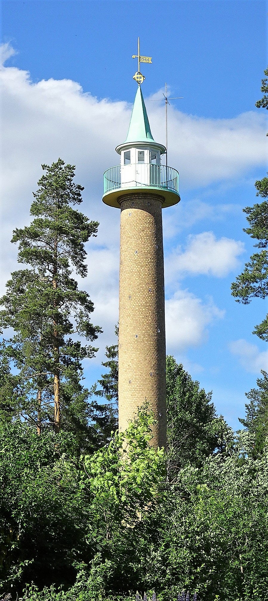 Fagersta luftbevakningstorn cropped